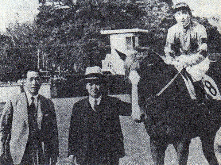 1941 Nakayama 4sai himba tokubetsu(Japanese 1000 guineas) winner Brand Sol.